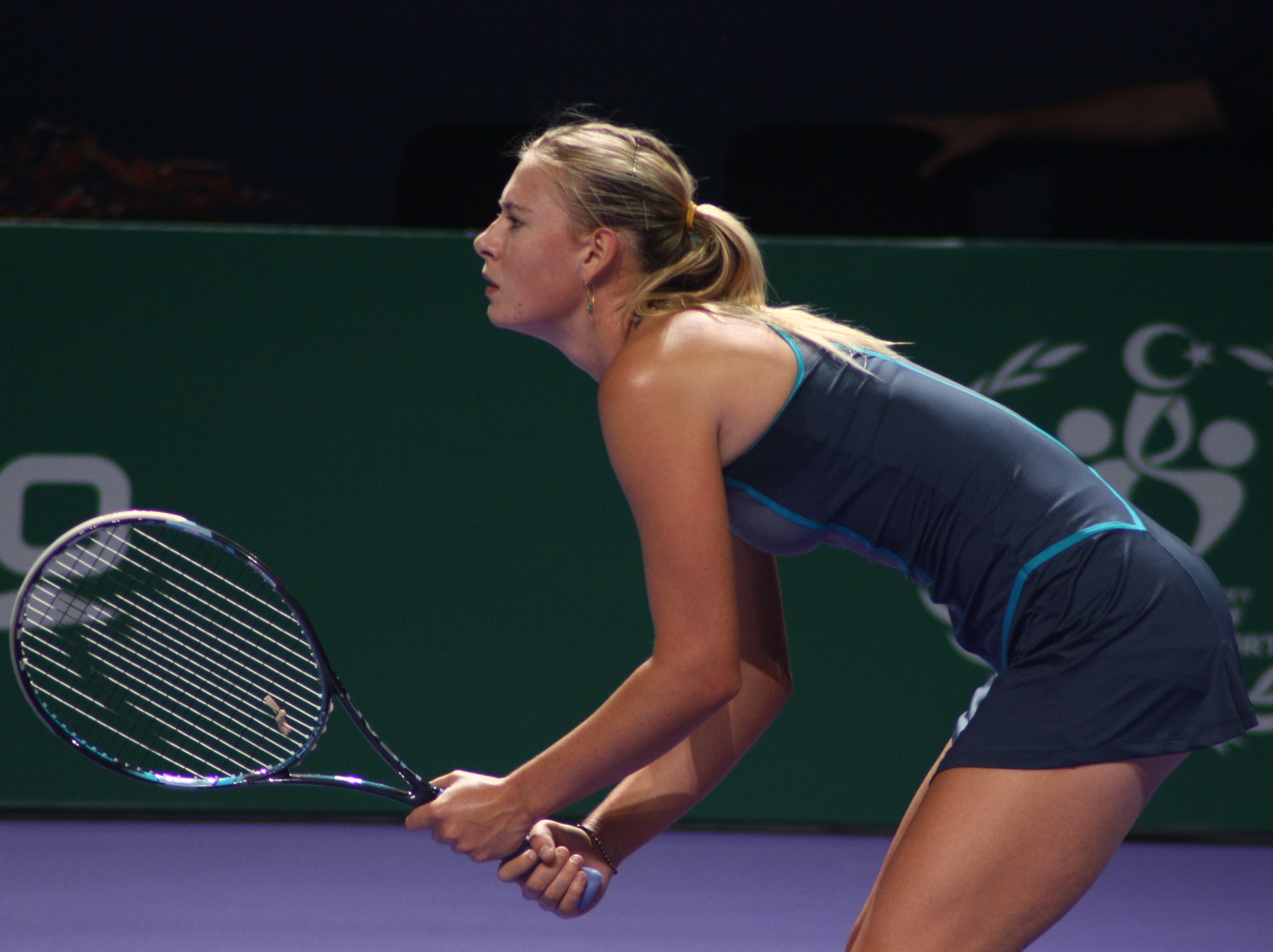 Maria SHARAPOVA in Istanbul 2011 WTA Championship